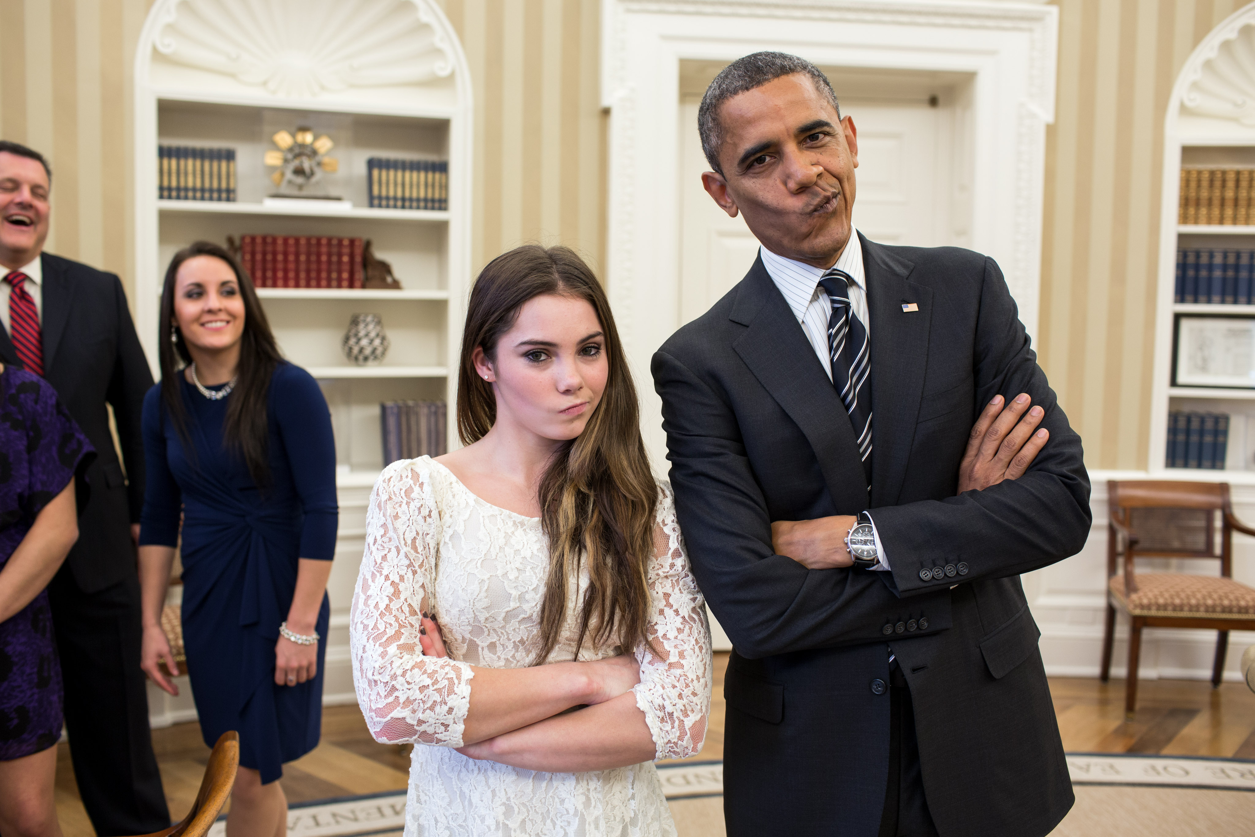 President Barack Obama jokingly mimics U.S. Olympic gymnast McKayla Maroney's "not impressed" look while greeting members of the 2012 U.S. Olympic gymnastics teams in the Oval Office, Nov. 15, 2012. Steve Penny, USA Gymnastics President, and Savannah Vinsant laugh at left. (Official White House Photo by Pete Souza)